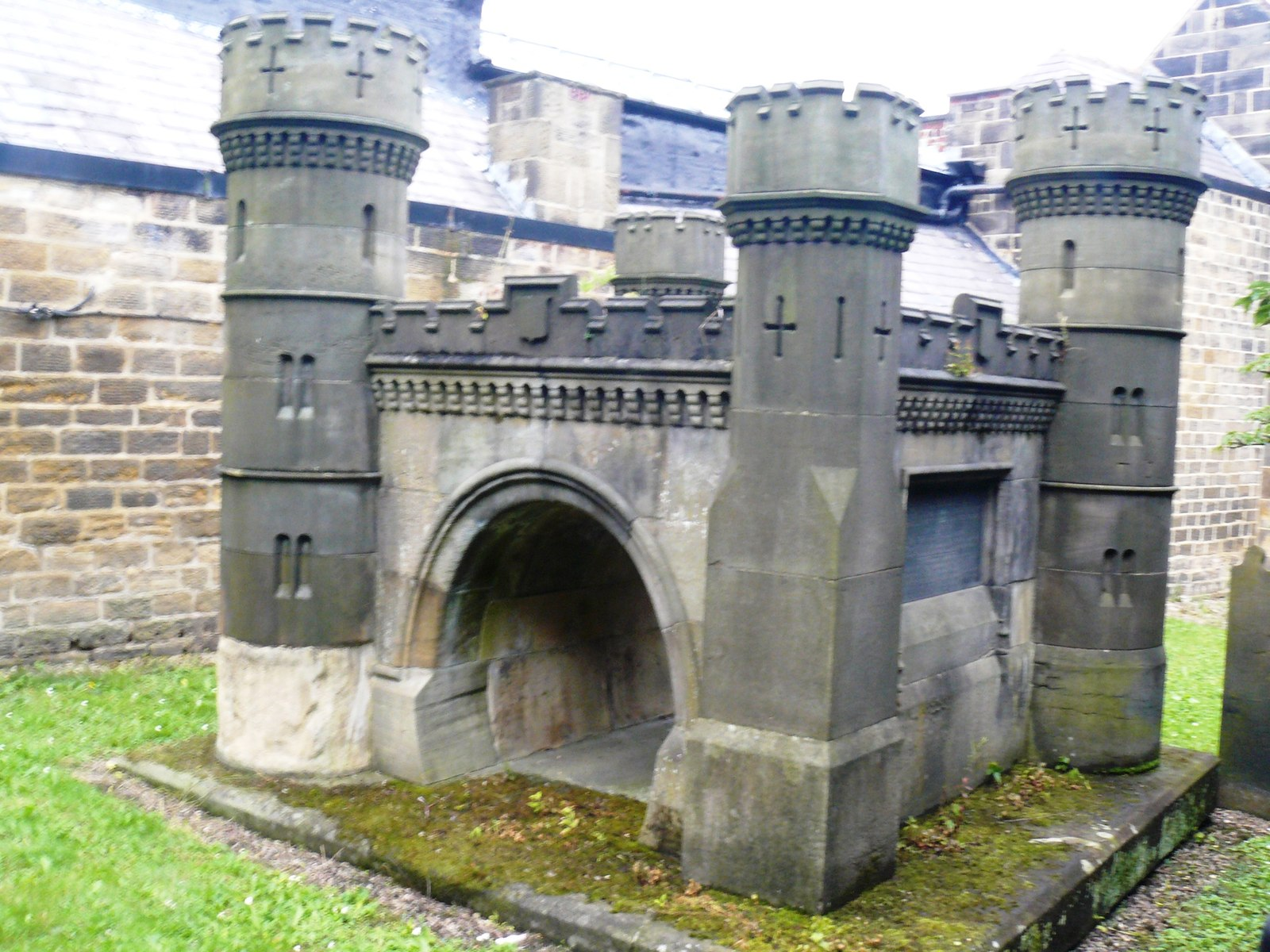 Bramhope Tunnel monument in All Saints' parish churchyard, Kirkgate, Otley, West Yorkshire